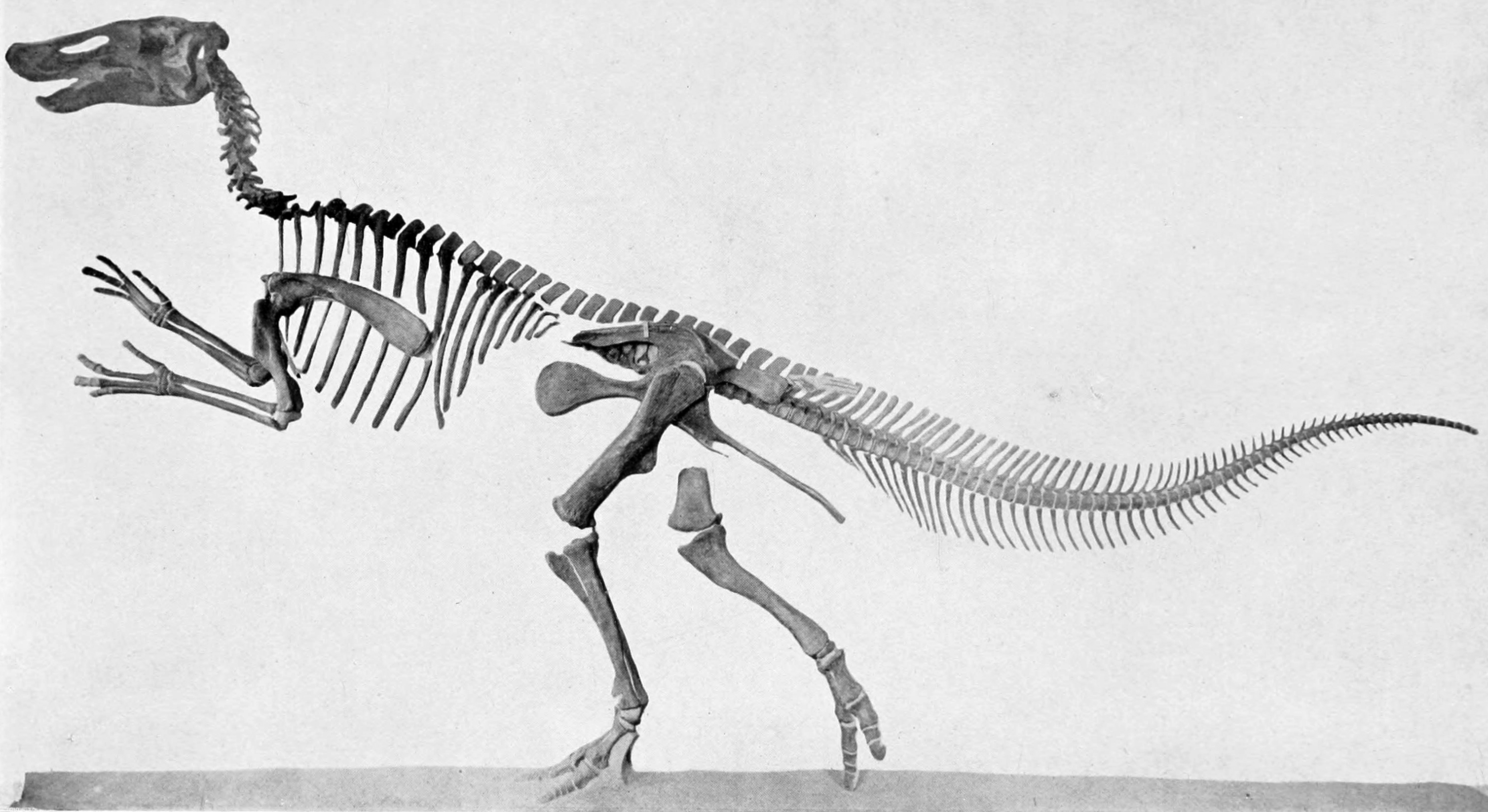 Edmontosaurus annectens skeleton YPM 2182 in Yale University Museum, first actual dinosaur skeleton mounted in the US. Title: Transactions of the Connecticut Academy of Arts and Sciences Year: 1866 (1860s) Authors: Connecticut Academy of Arts and Sciences Subjects: Science Humanities Publisher: New Haven : Published by the Academy Text Appearing Before Image: H Richaniscn.del. Hebotjrpe Pnrtsxi Ca^nsan.. Trans. Conn. Aoad. Vol XI. PLATE XL.I. Text Appearing After Image: Trans. Conn. Acad. Vol. XI. PLATE XLII.